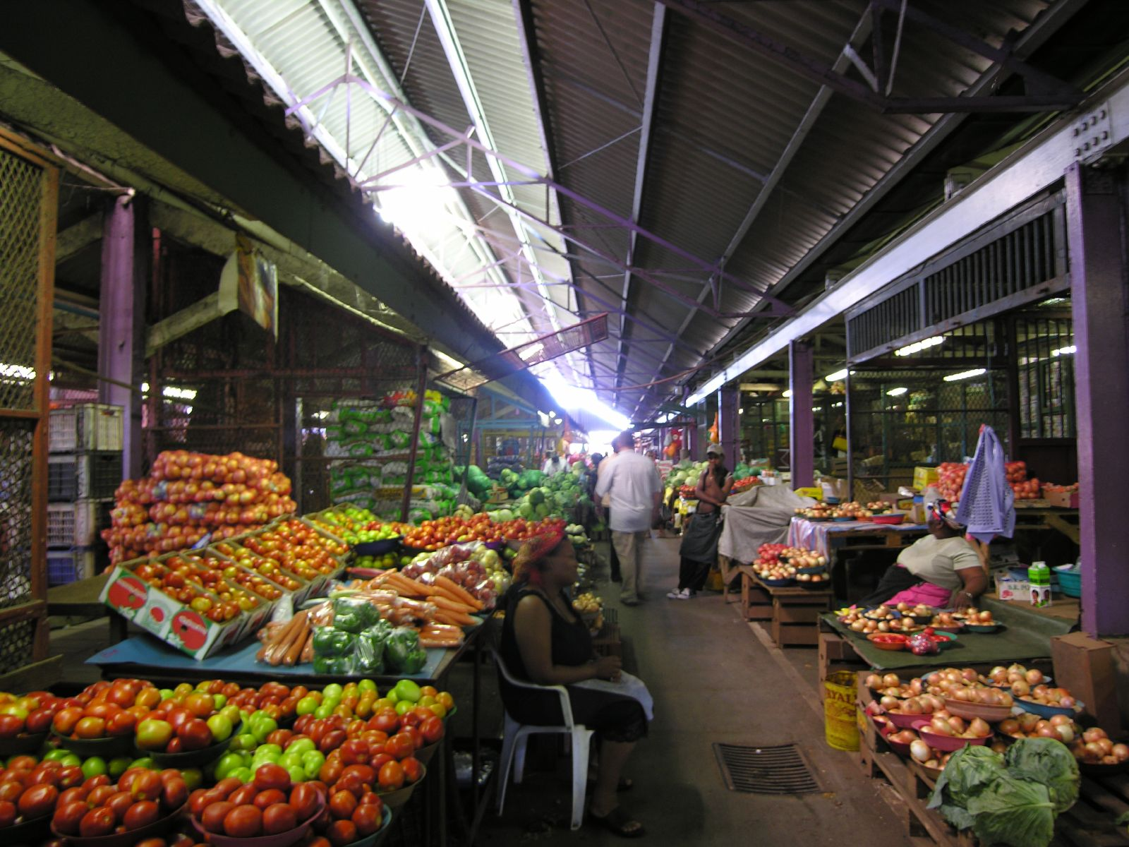 Durban Fruit Market